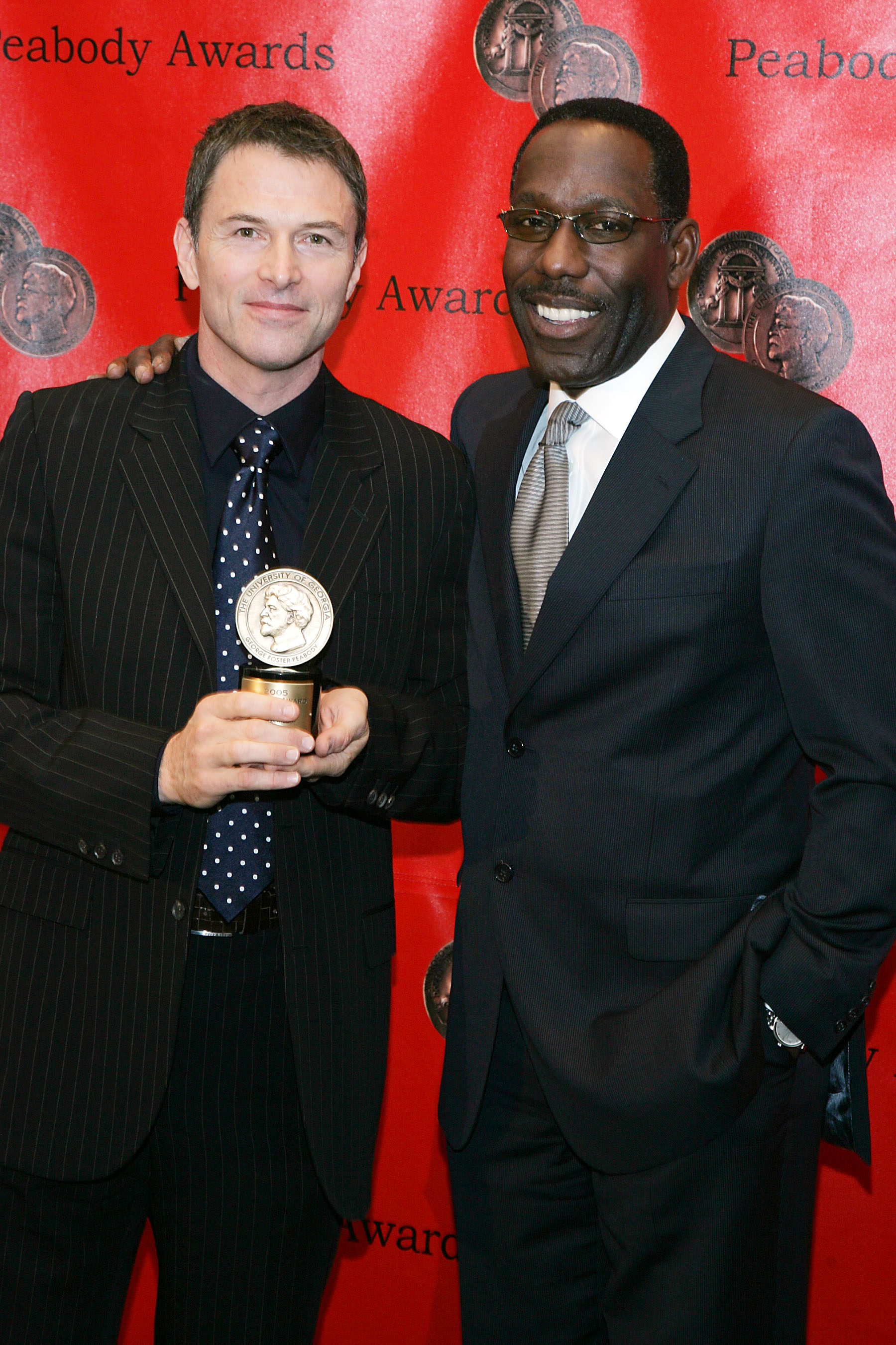 65th Annual Peabody Awards Luncheon Waldorf=Astoria Hotel New York, NY USA June 5, 2006